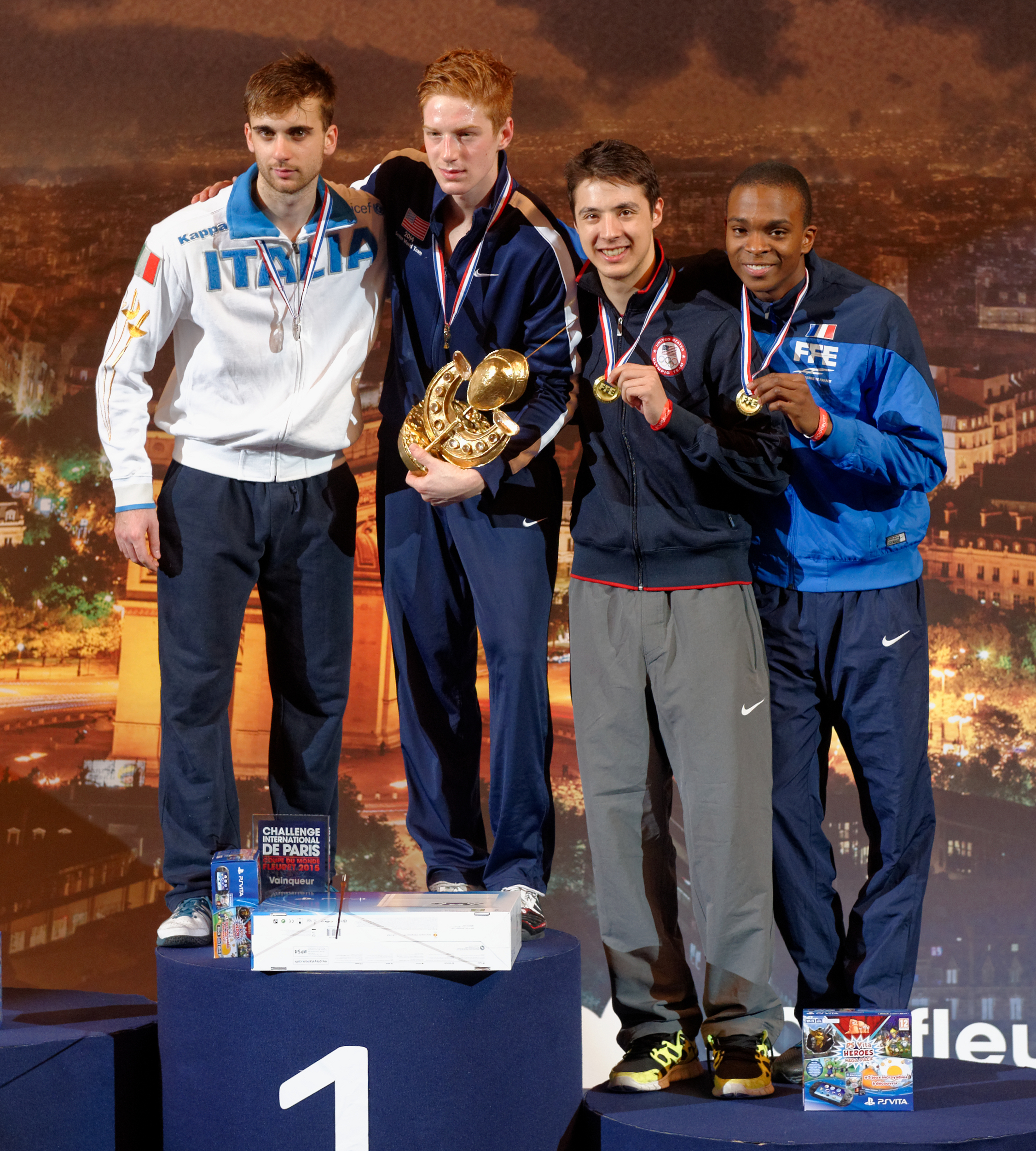 Award ceremony of the 2015 Challenge International de Paris: from left to right, Daniele Garozzo (silver), Race Imboden (gold), and Alexander Massialas and Enzo Lefort (bronze).